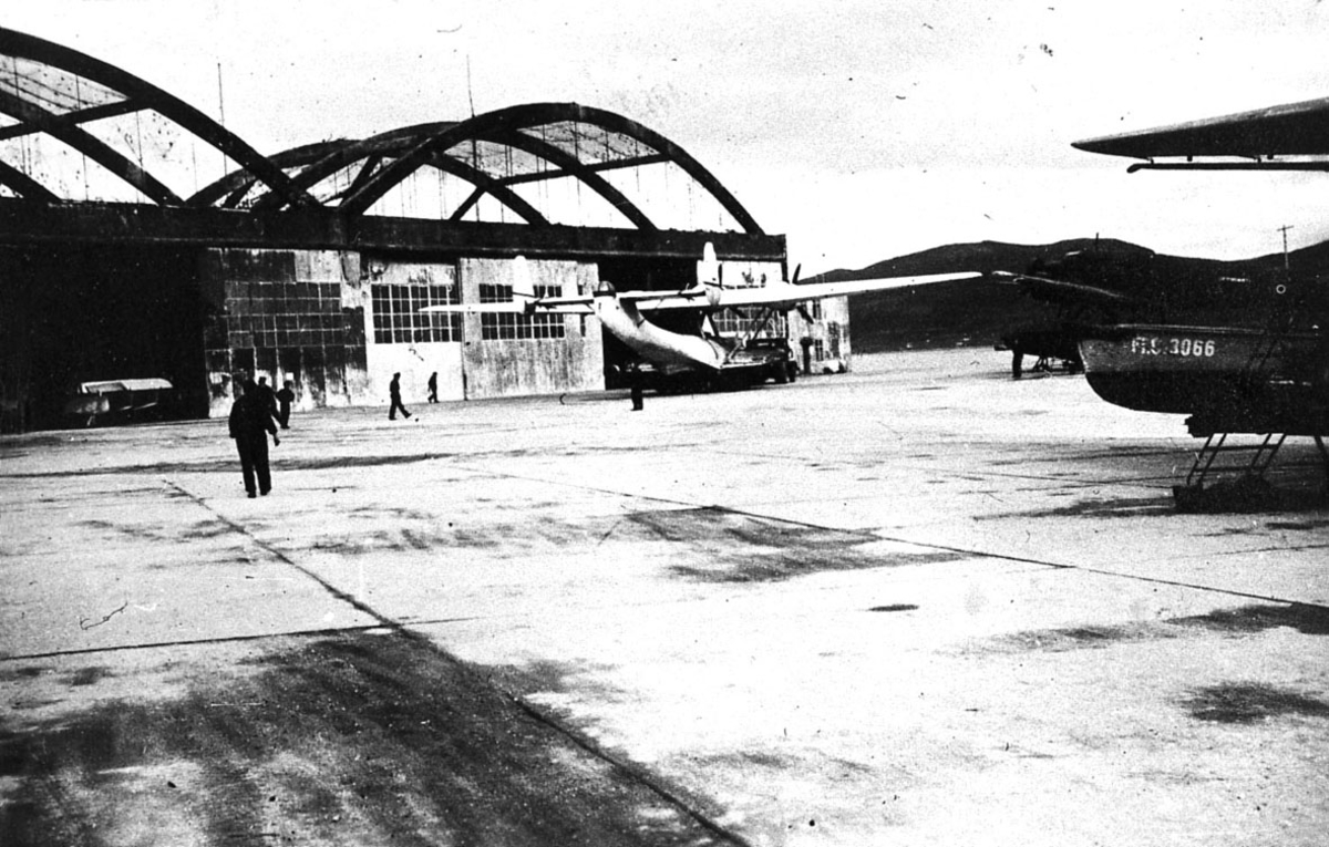 Dornier Do 24 and two other aircraft at Tromsø Airport, Skattøra